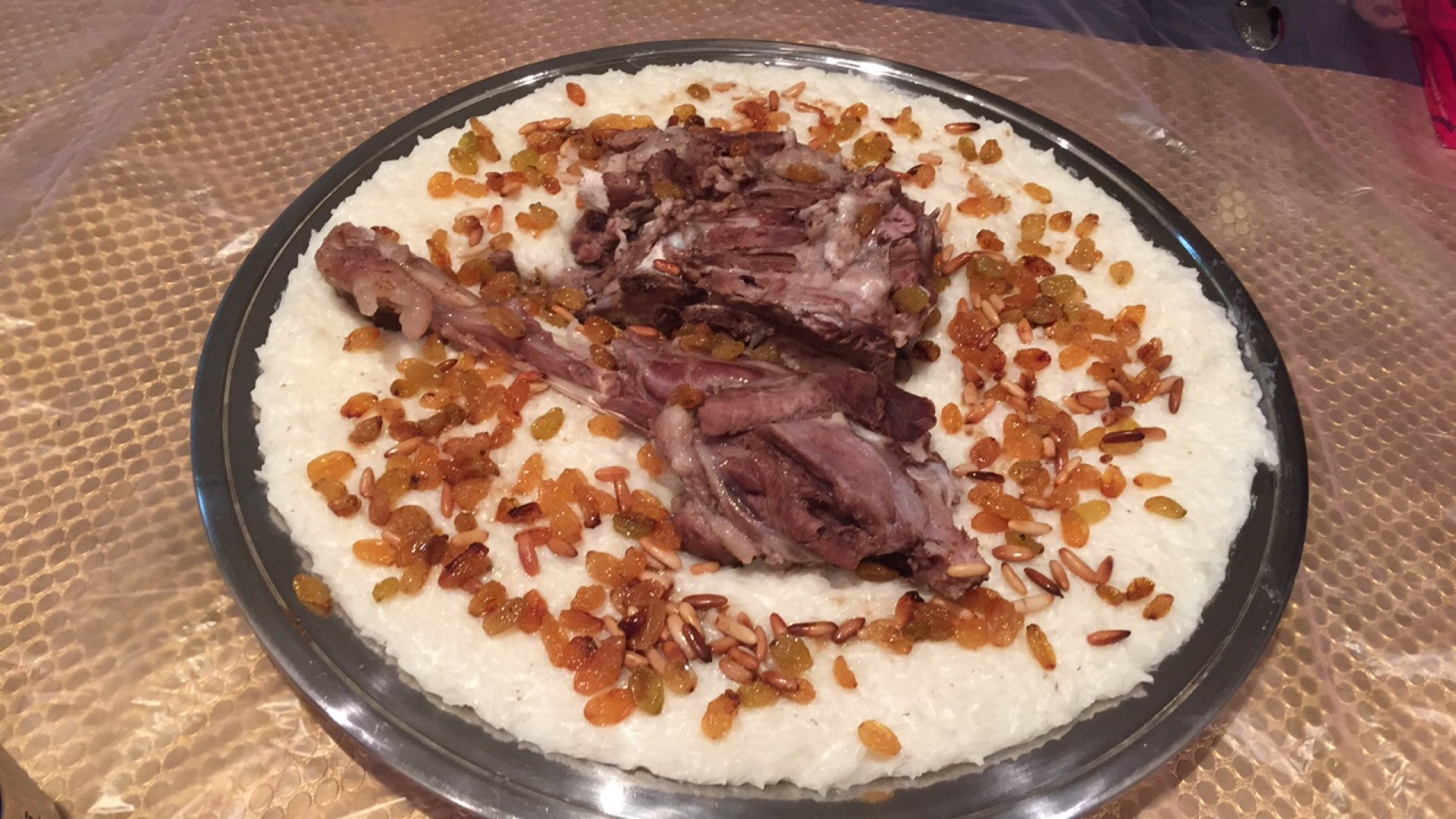 The hijazi saleeq is a Saudi dish from Hijaz region.